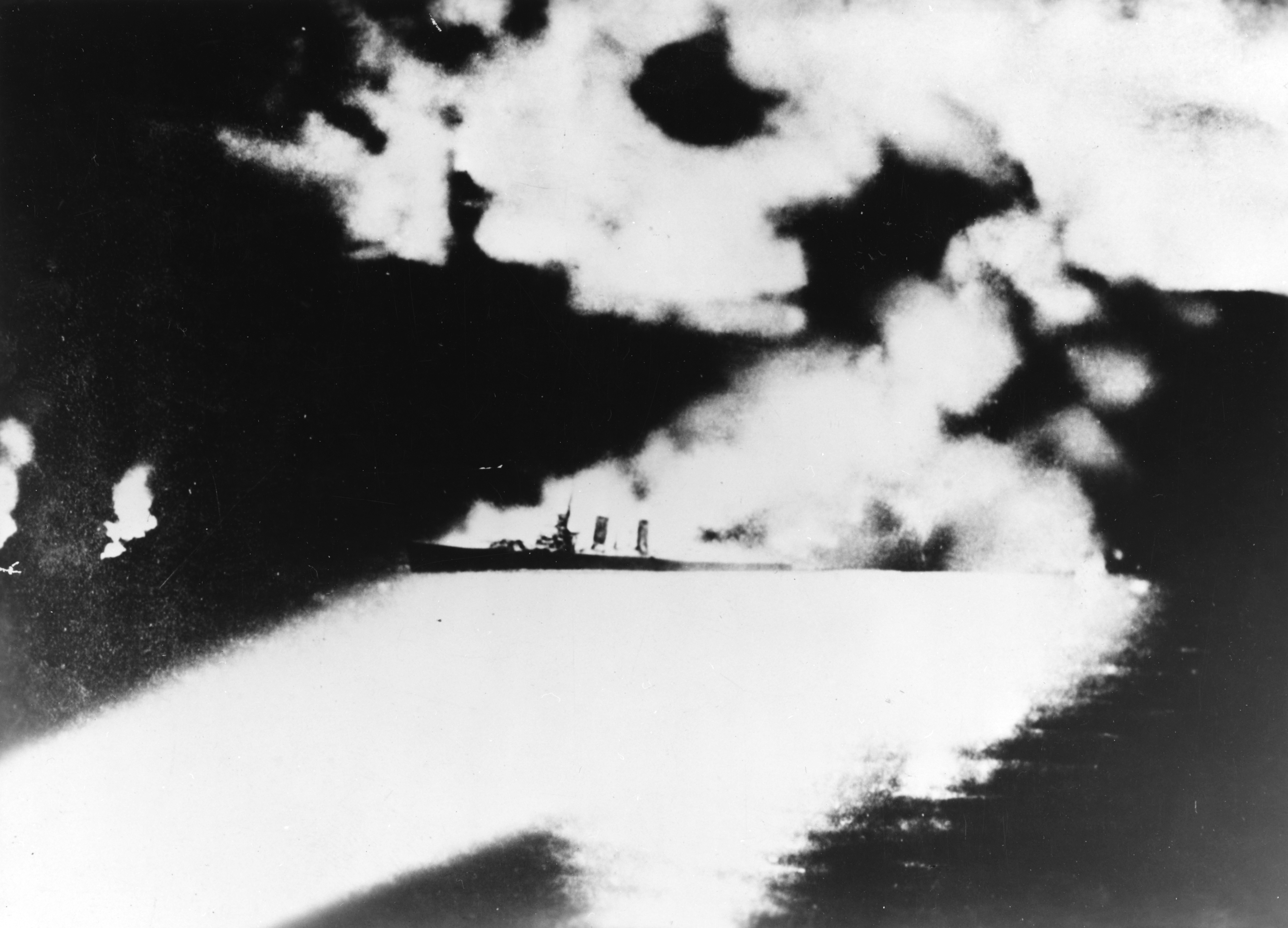 The U.S. Navy heavy cruiser USS Quincy (CA-39) photographed from a Japanese cruiser during the Battle of Savo Island, off Guadalcanal, 9 August 1942. Quincy, seen here burning and illuminated by Japanese searchlights, was sunk in this action. The flames at the far left of the picture are probably from the USS Vincennes (CA-44), also on fire from gunfire and torpedo damage.